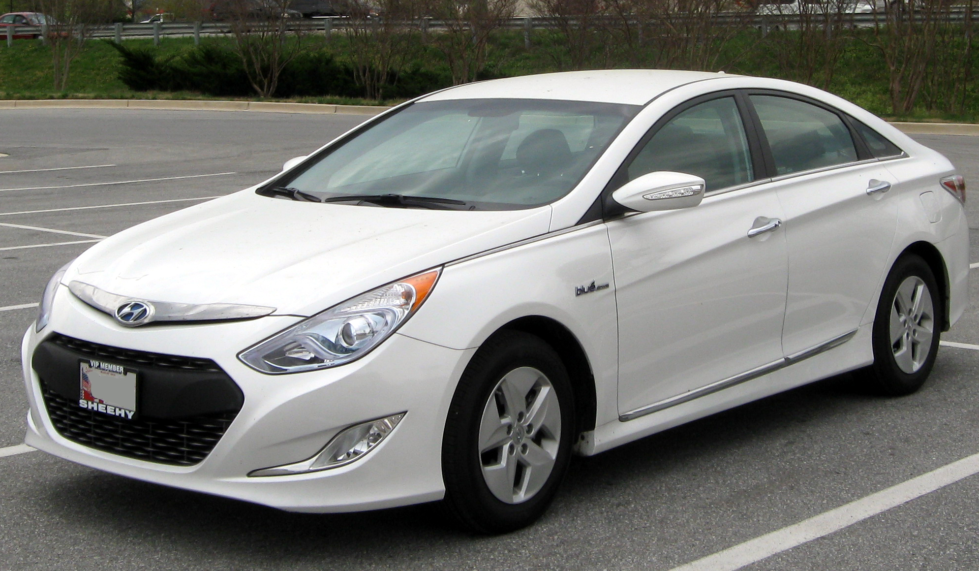 2011-2012 Hyundai Sonata Hybrid photographed in Clinton, Maryland, USA.